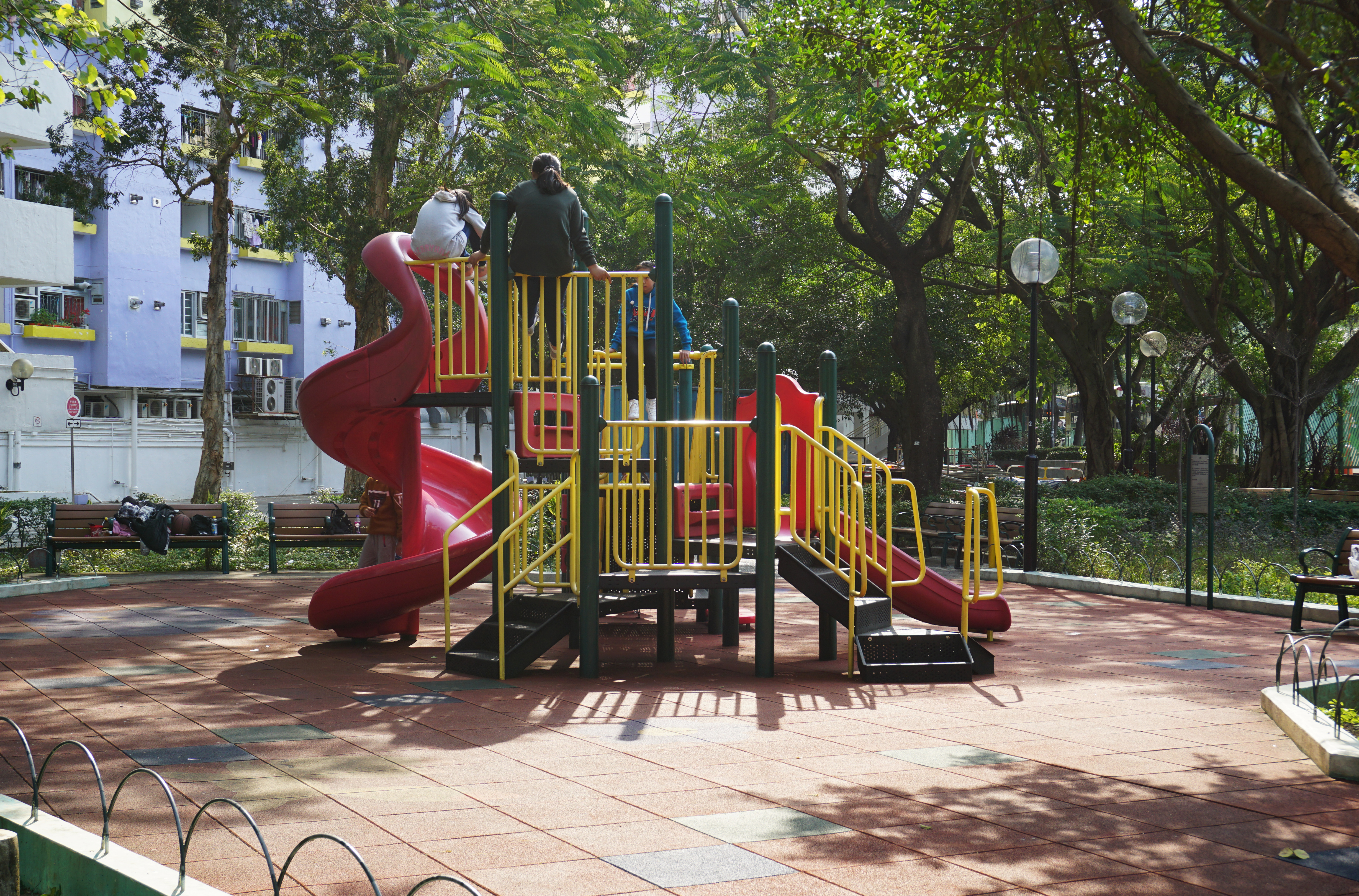 Jat Min Chuen in Sha Tin Wai, Hong Kong.